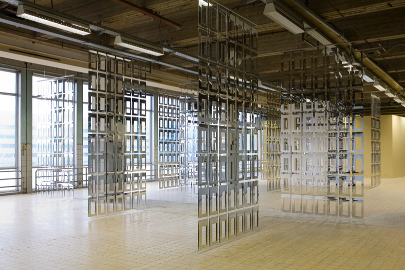 Carla Arocha and Stéphane Schraenen, P5 bis, 2007, Plexiglass and stainless steel, 51 x 23 ft. Copyright 2007: Carla Arocha and Stéphane Schraenen.